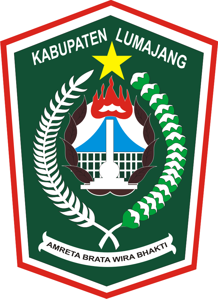 Seal of Lumajang Regency